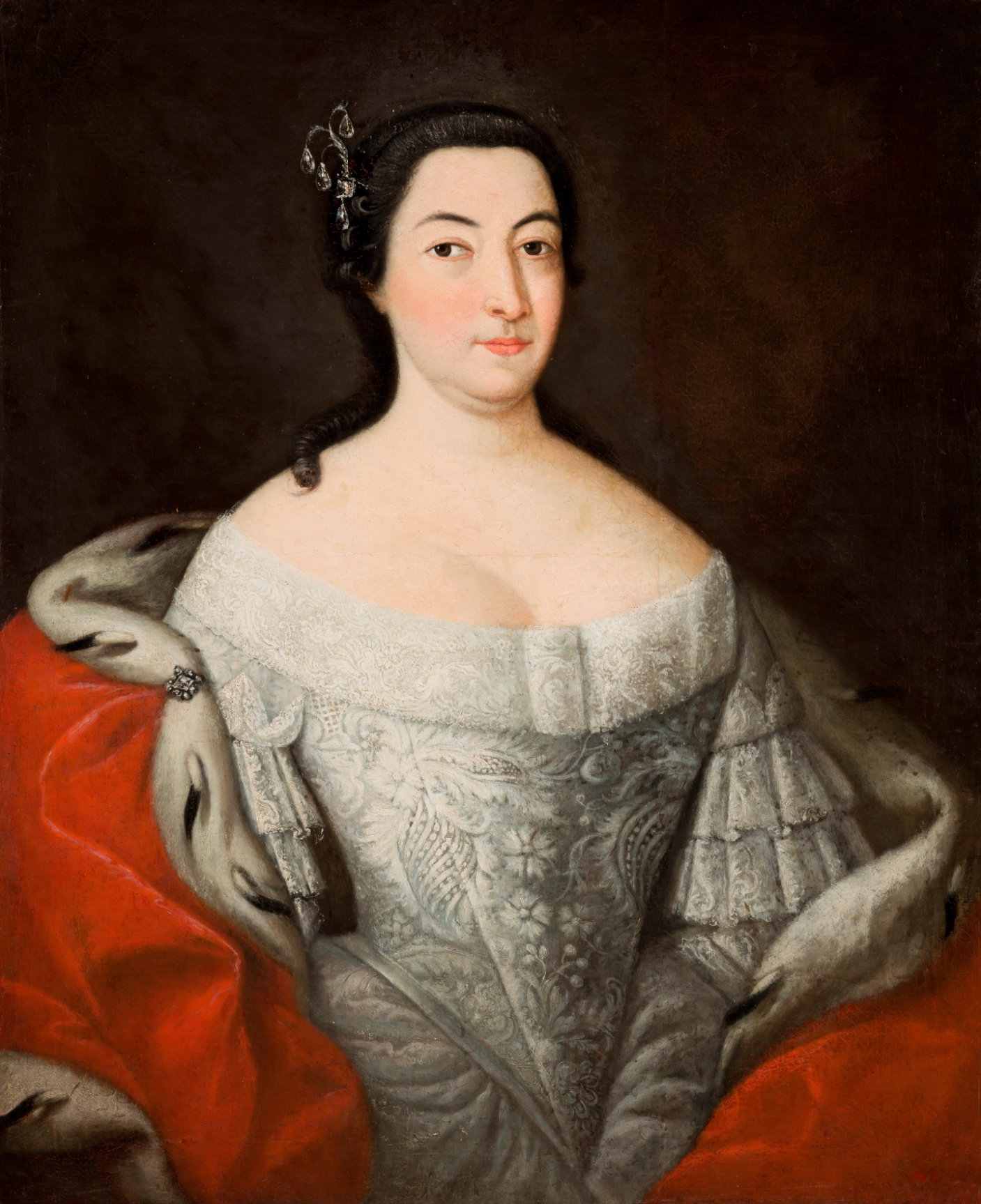 Catherine Ioannovna of Russia, duchess of Mecklenburg-Schwerin